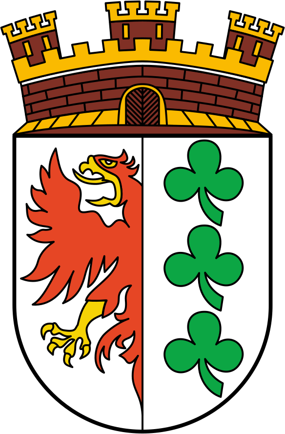 Coat of arms of Werder (Havel)